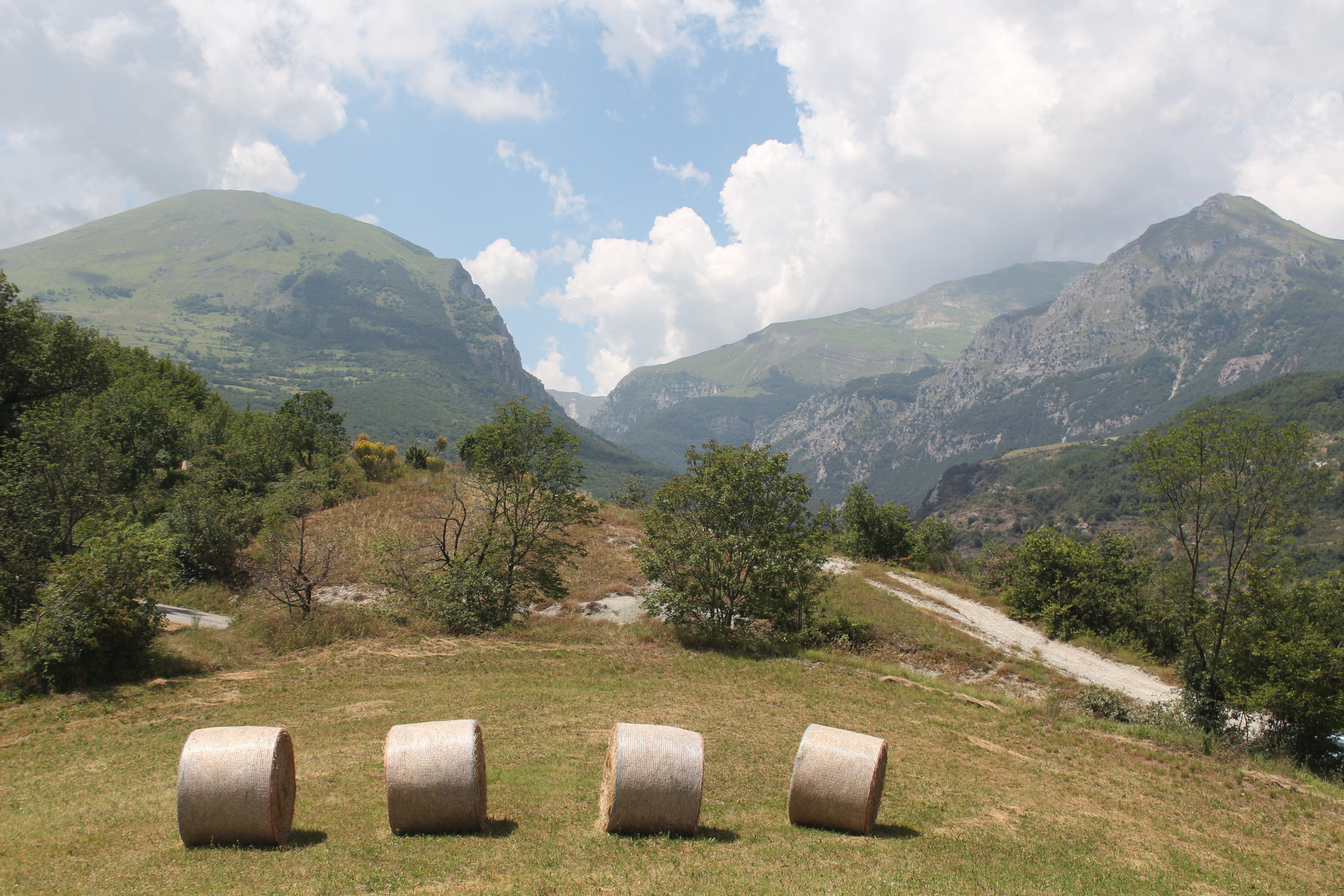 This image has been originally created as the illustration for país amb Apenins entry in crosswords dictionary . It has been released under CC-BY-3.0 license.